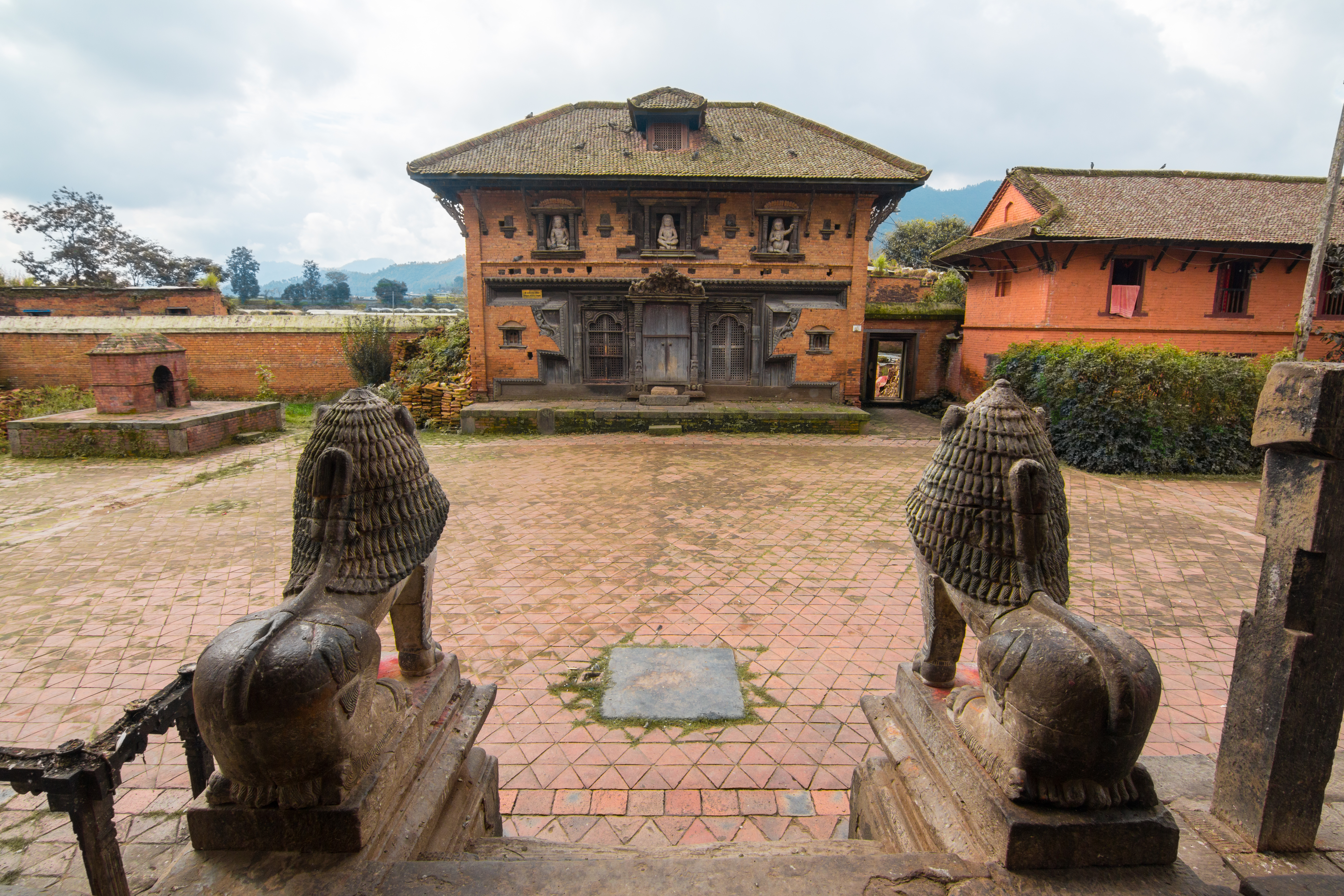 Temples in Nepal Swetbhairab temple, Shachi Tirtha Tribenighat, Panauti, Kavrepalanchok district. Panauti Temple Premises. Panauti town is actually a combination of six villages (Panauti, Malpi, Taukhal, Subbagaun, Sunthan, and Khopasi), and it has a population of around 30,000. The main ethnicities here are that of Newars, Brahmins and Chettris, and Tamangs.नेपाली: काभ्रे जिल्ला पनाैतीमा अवस्थित सचि तिर्थ त्रिवेणिघाटमा रहेकाे कृष्ण नारायणकाे ढुङ्गाकाे मुर्तिमा कुदिएका कलाकृति, काभ्रे जिल्ला पनाैतीमा अवस्थित सचि तिर्थ त्रिवेणिघाटमा रहेकाे उन्नमत्त भैरव मन्दिर इन्दे्श्वर महादेव मन्दिरबाट खिचीएकाे ढाेका भःयालमा कुदिएका कलाकृति